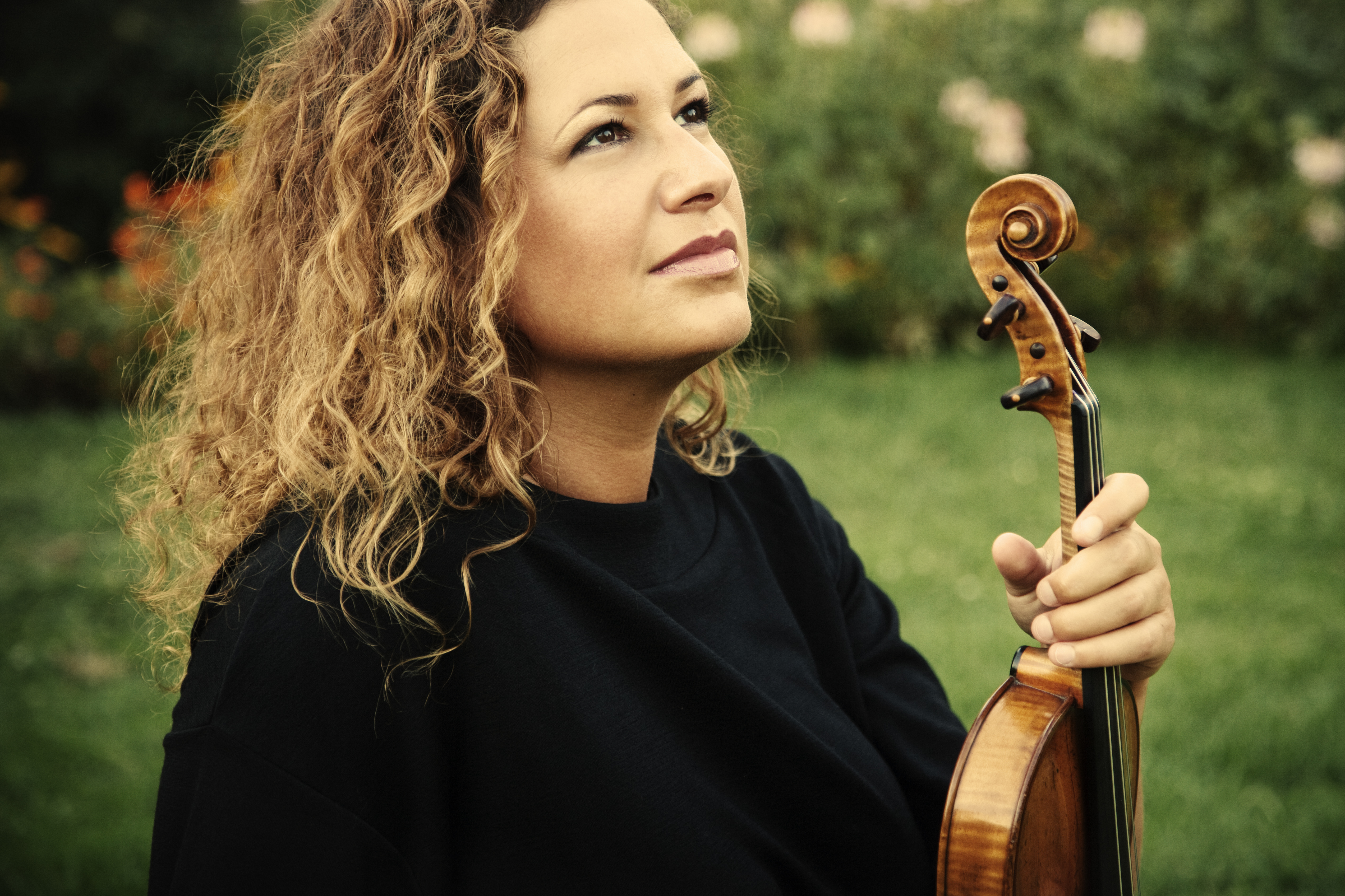 Gwendolyn Masin by Balázs Böröcz